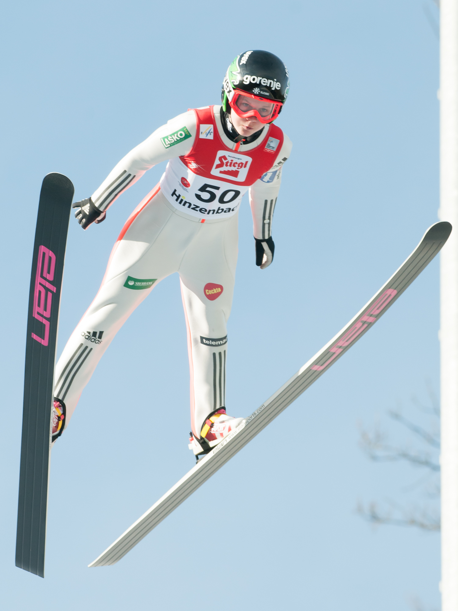 FIS Ski Jumping World Cup Ladies Hinzenbach 2016-02-07